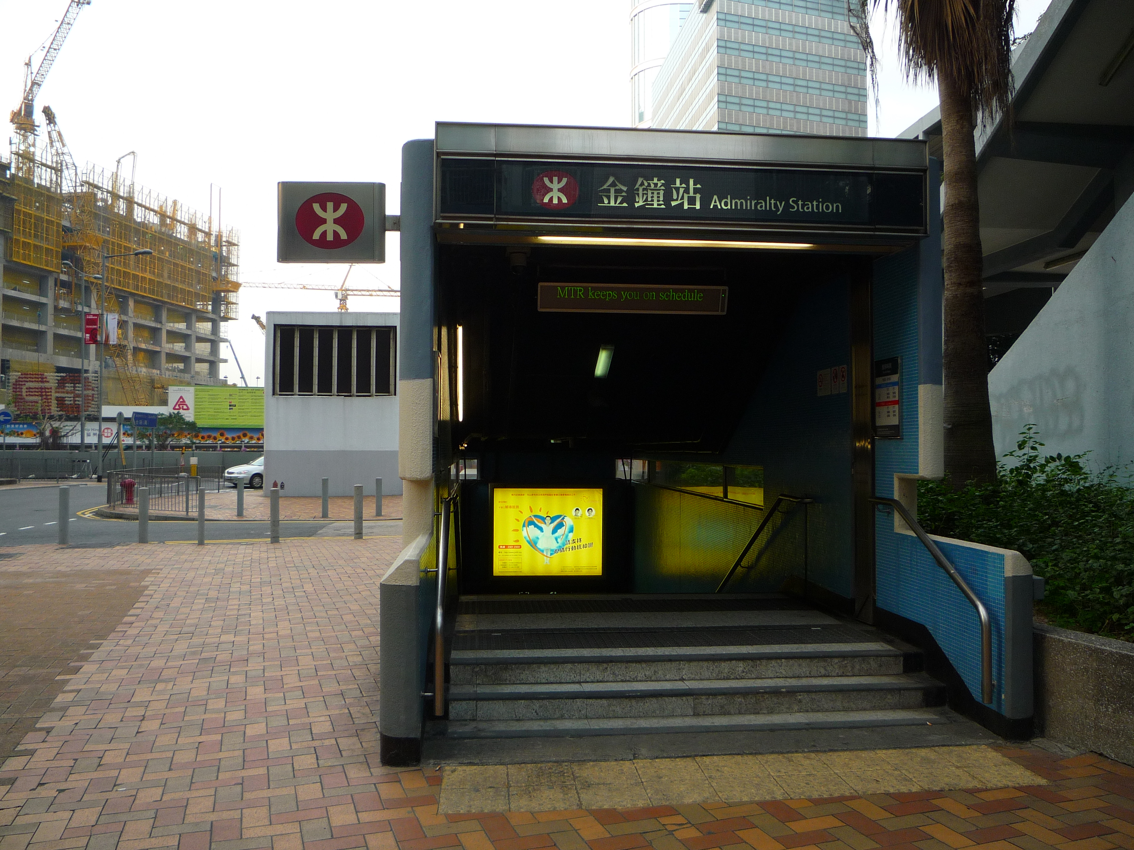 MTR Admiralty Station